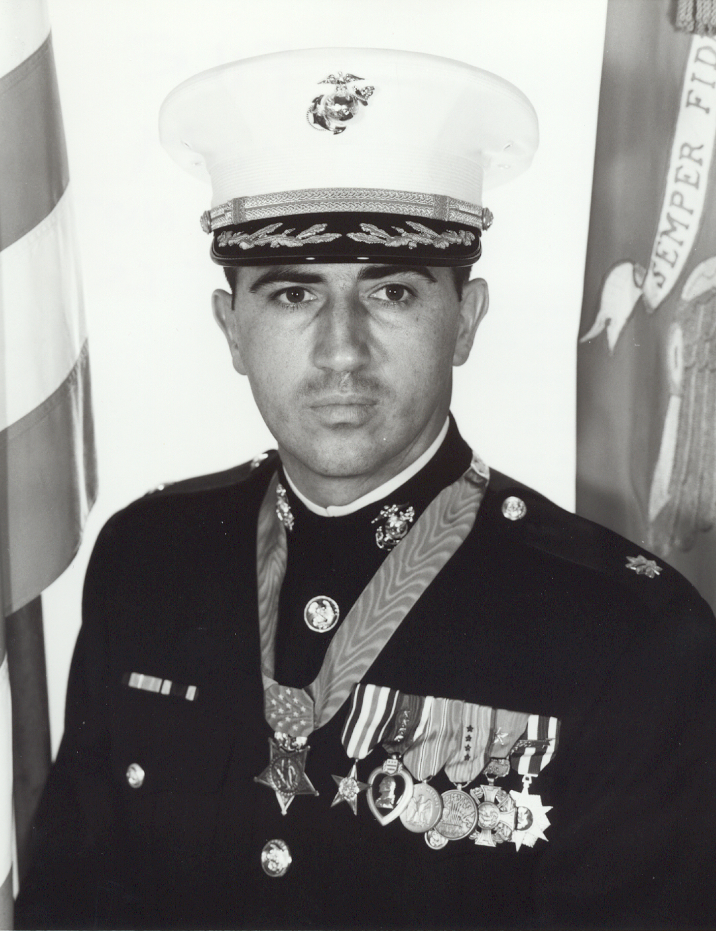 Jay R. Vargas, USMC (retired); recipient of the Medal of Honor for actions during the Vietnam War